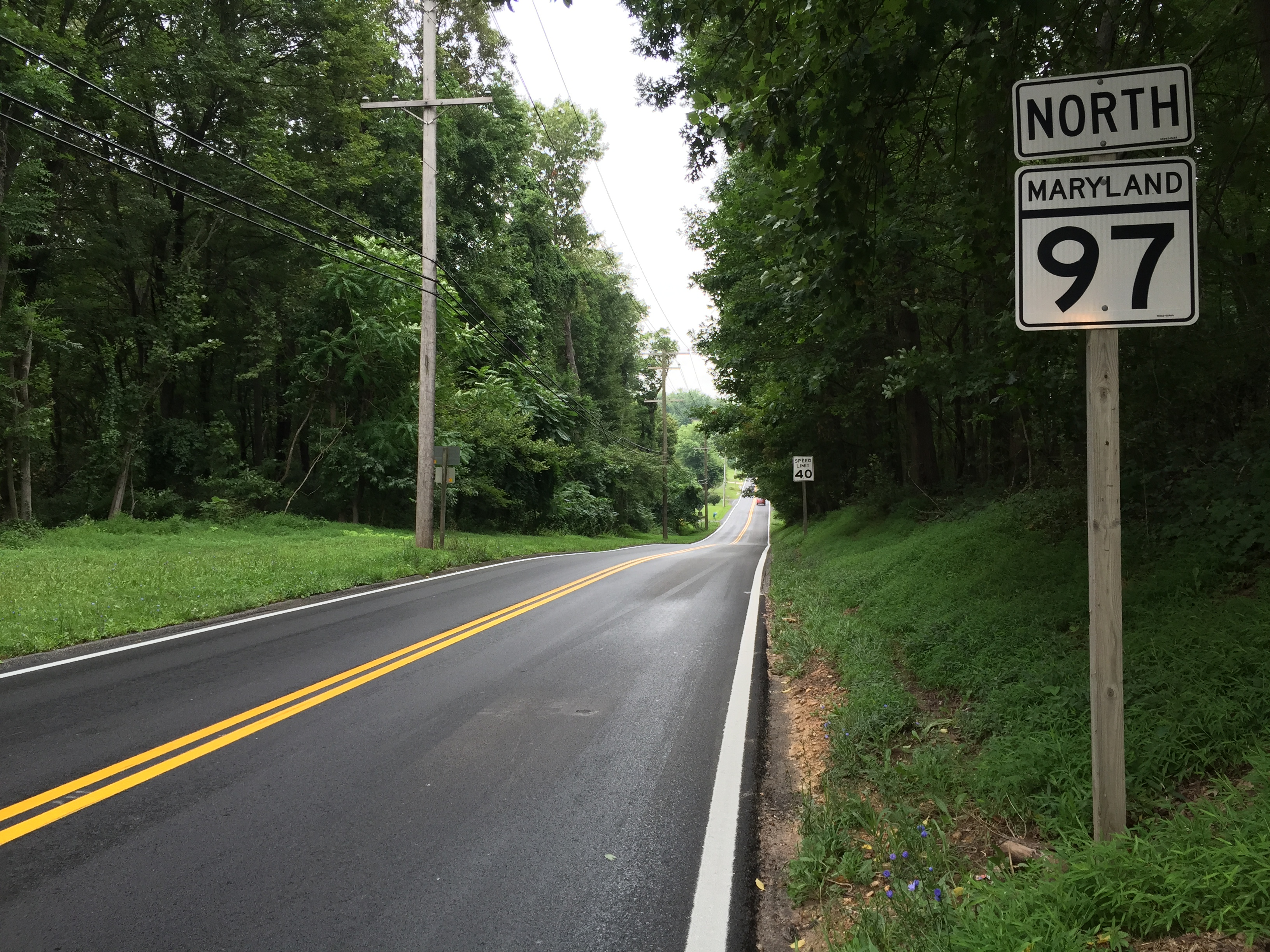 View north along Maryland State Route 97 (Old Washington Road) at Hoods Mill Road in Eldersburg, Carroll County, Maryland